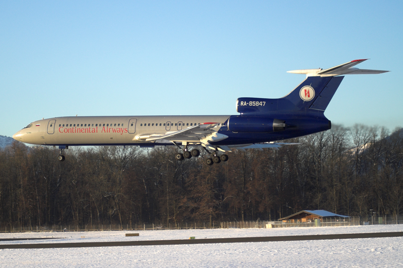 Continental Airways Tupolev Tu-154M RA-85847